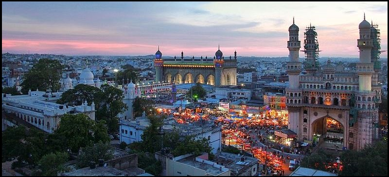 Panorama of Charminar and surroundings which consist of Charminar Bazar, Mekkah Masjid, Nizamia Unani hospital and Laad Bazaar.